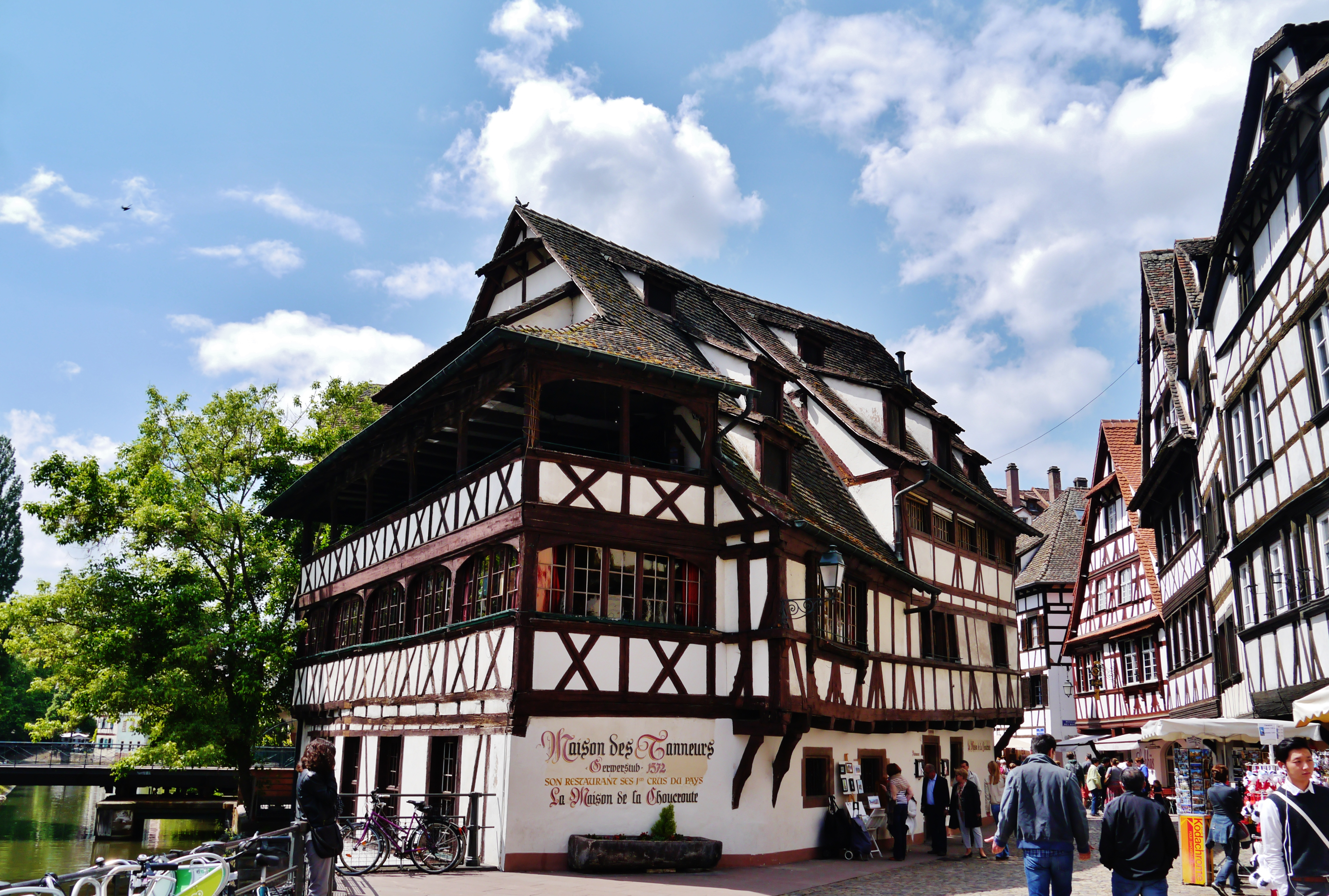 Quarter of La Petite France/Little France, Strasbourg, Alsace, France